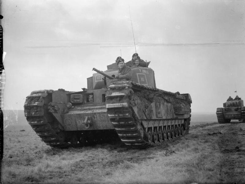 IWM caption : Churchill tank 'Jester' of 'B' Squadron, 10th Royal Tank Regiment (10Btn tanks had names starting with 10th letter of the alphabet J) during an exercise at Tilshead on Salisbury Plain.